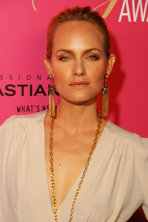 attending "The 6th Annual Hollywood Style Awards" Beverly Hills, CA on Oct. 10, 2009 - Photo by Glenn Francis of